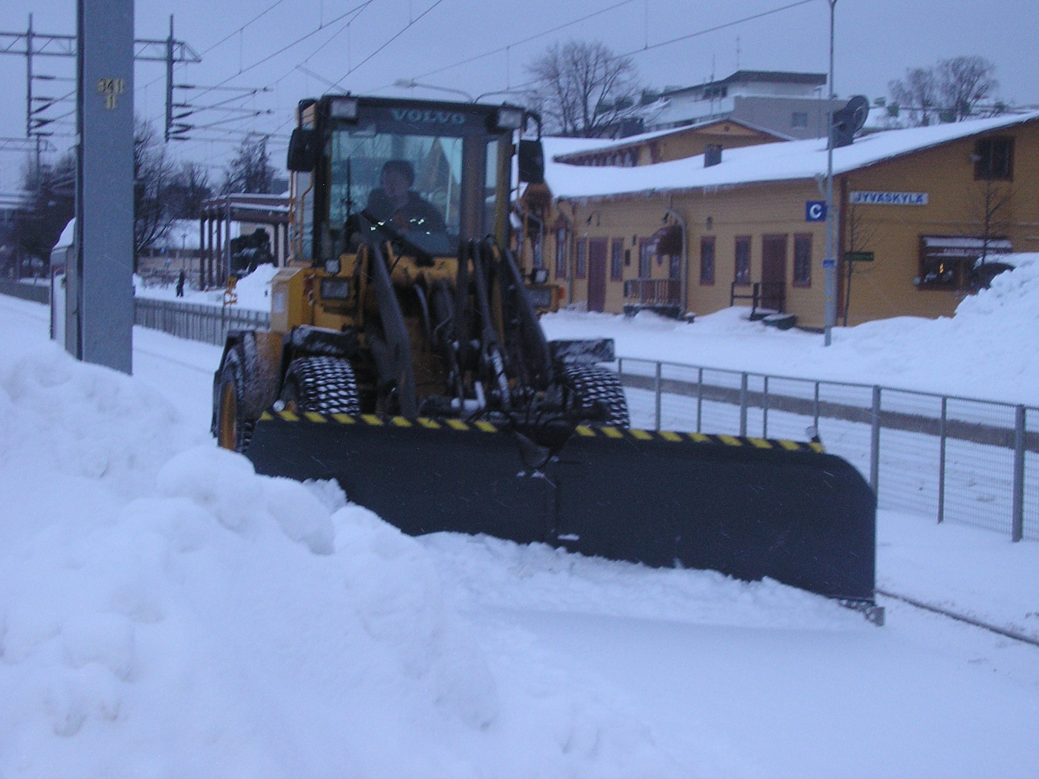 Volvo loader plowing snow at Jyväskylä railway station, Finland